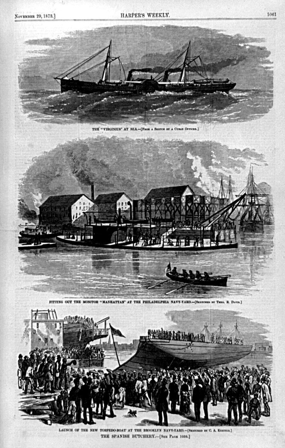 "The Spanish butchery" November 29th, 1873 pictorial illustrations from Harper's Weekly on U.S. naval response to Spanish attack on Virginius during the 1868-1878 Cuban Insurrection.